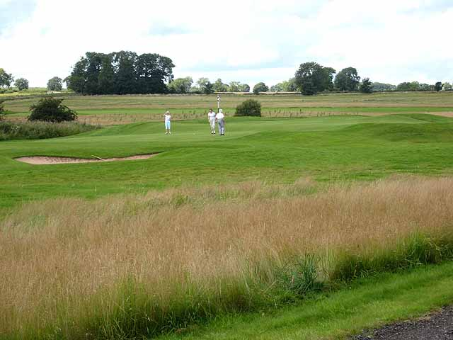 Golf course at Matfen Hall Golf is just one of the attractions offered by the luxury Matfen Hall Hotel NZ0371